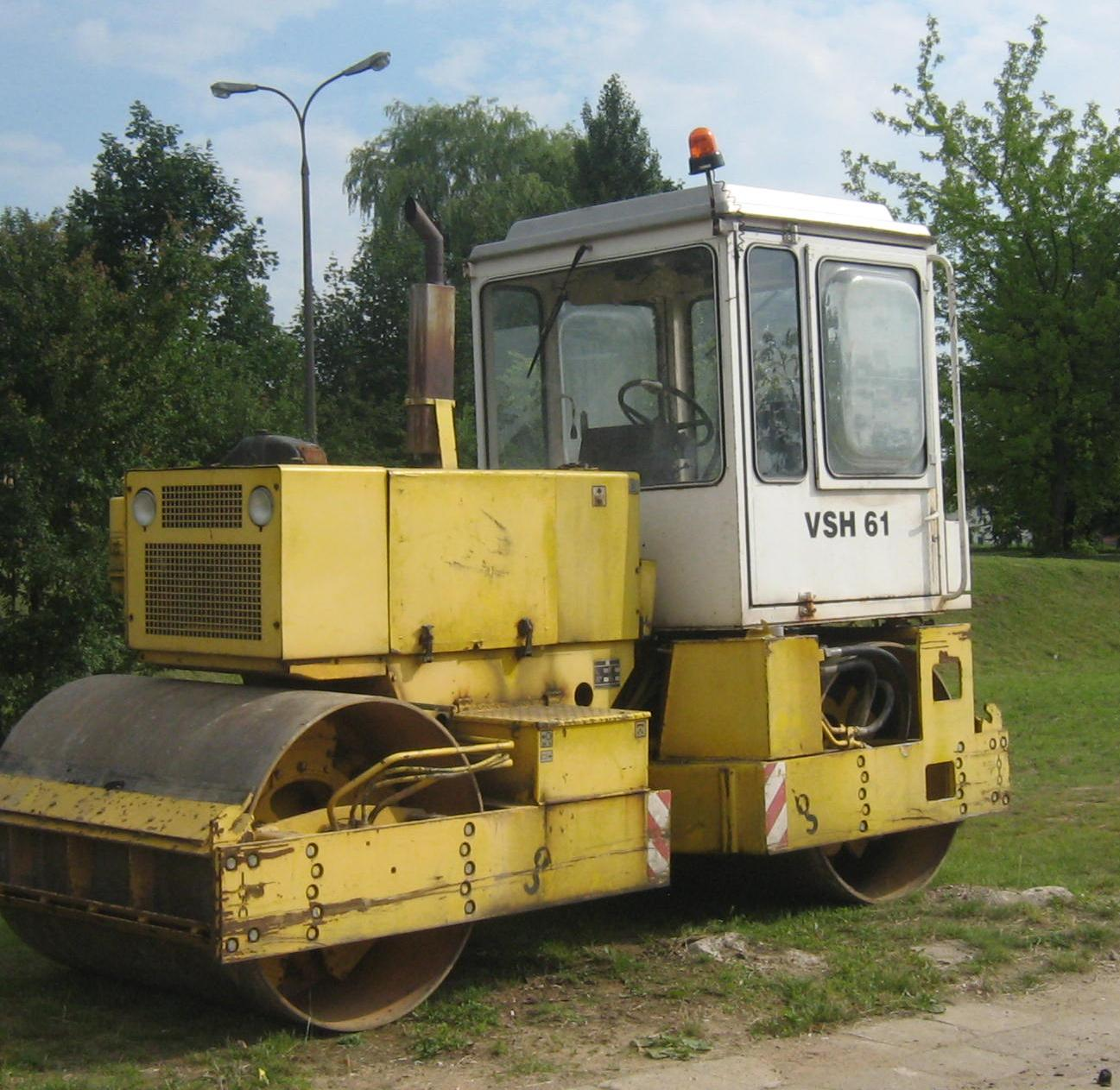 Road roller Stavostroj_VSH_61